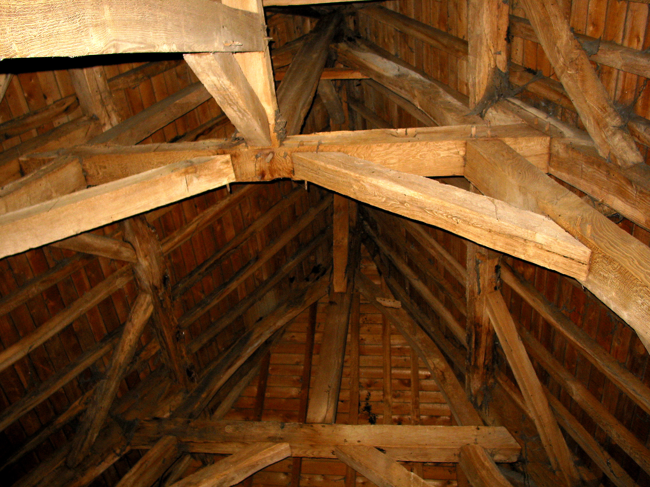 Noville-les-Bois (Belgium), framework of the Fernelmont castle.